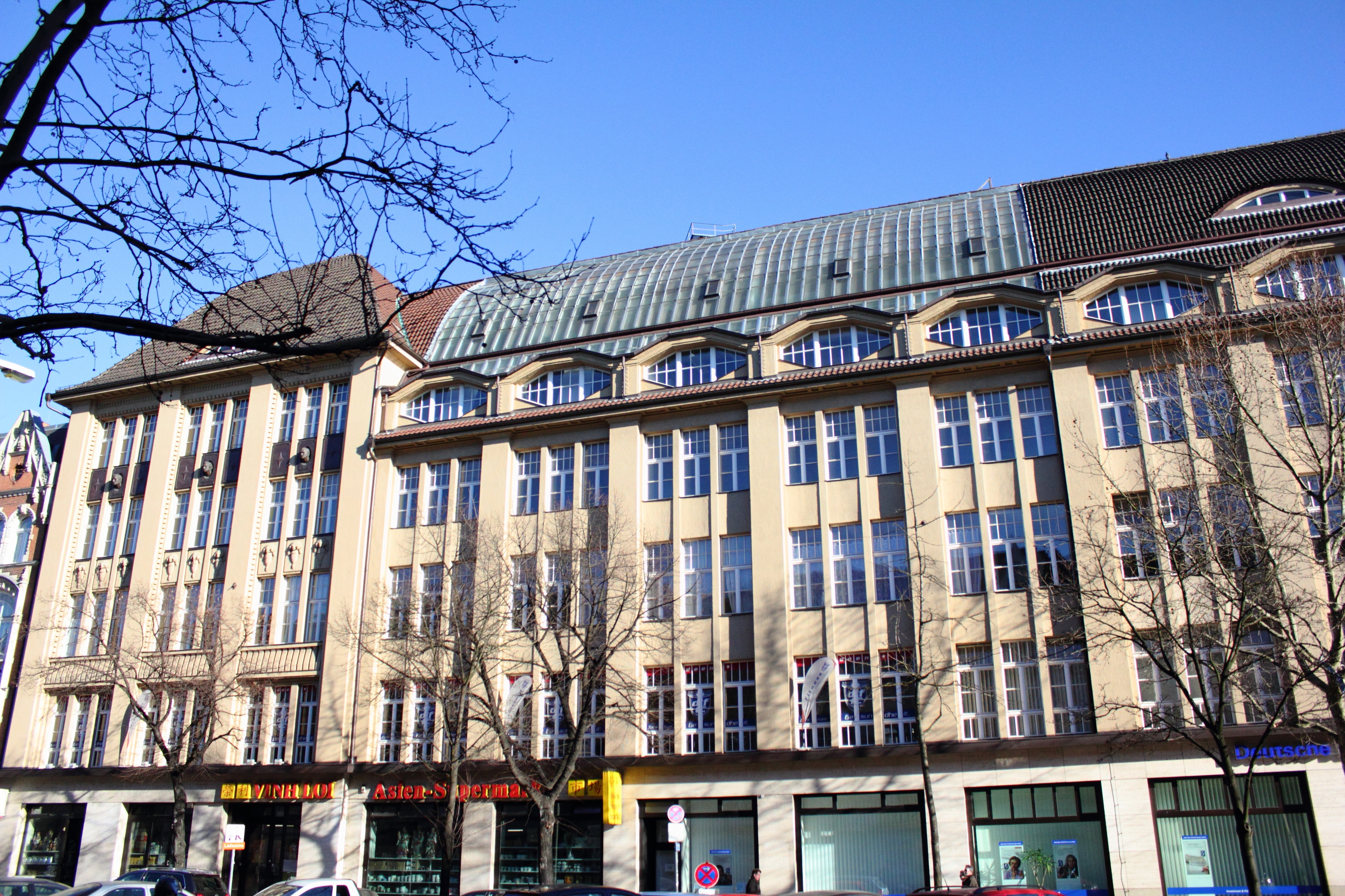 Goerz-Höfe, Rheinstraße, Berlin-Friedenau